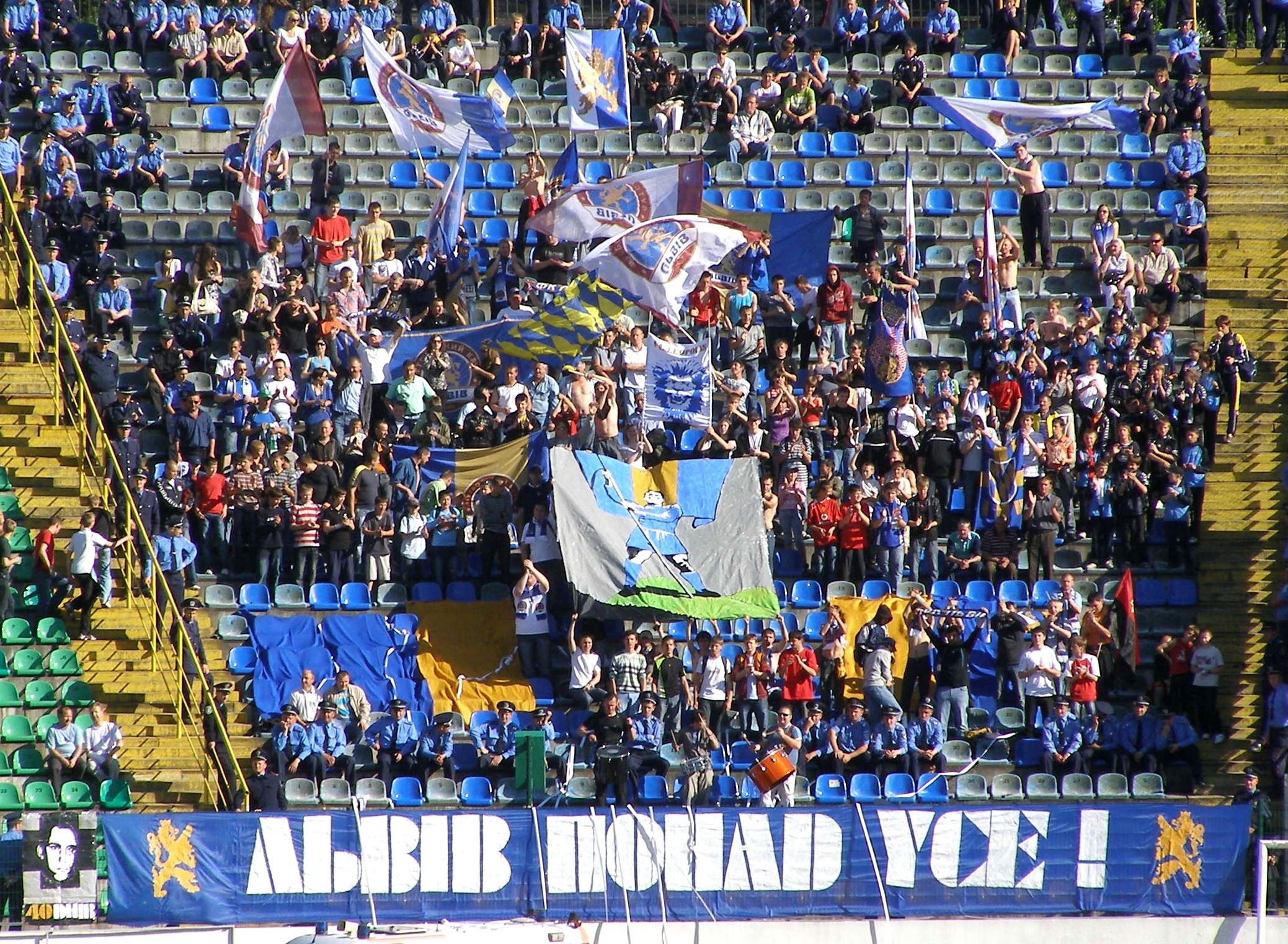 FC Lviv supporters